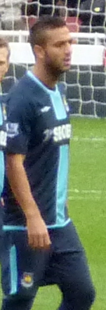 Mido